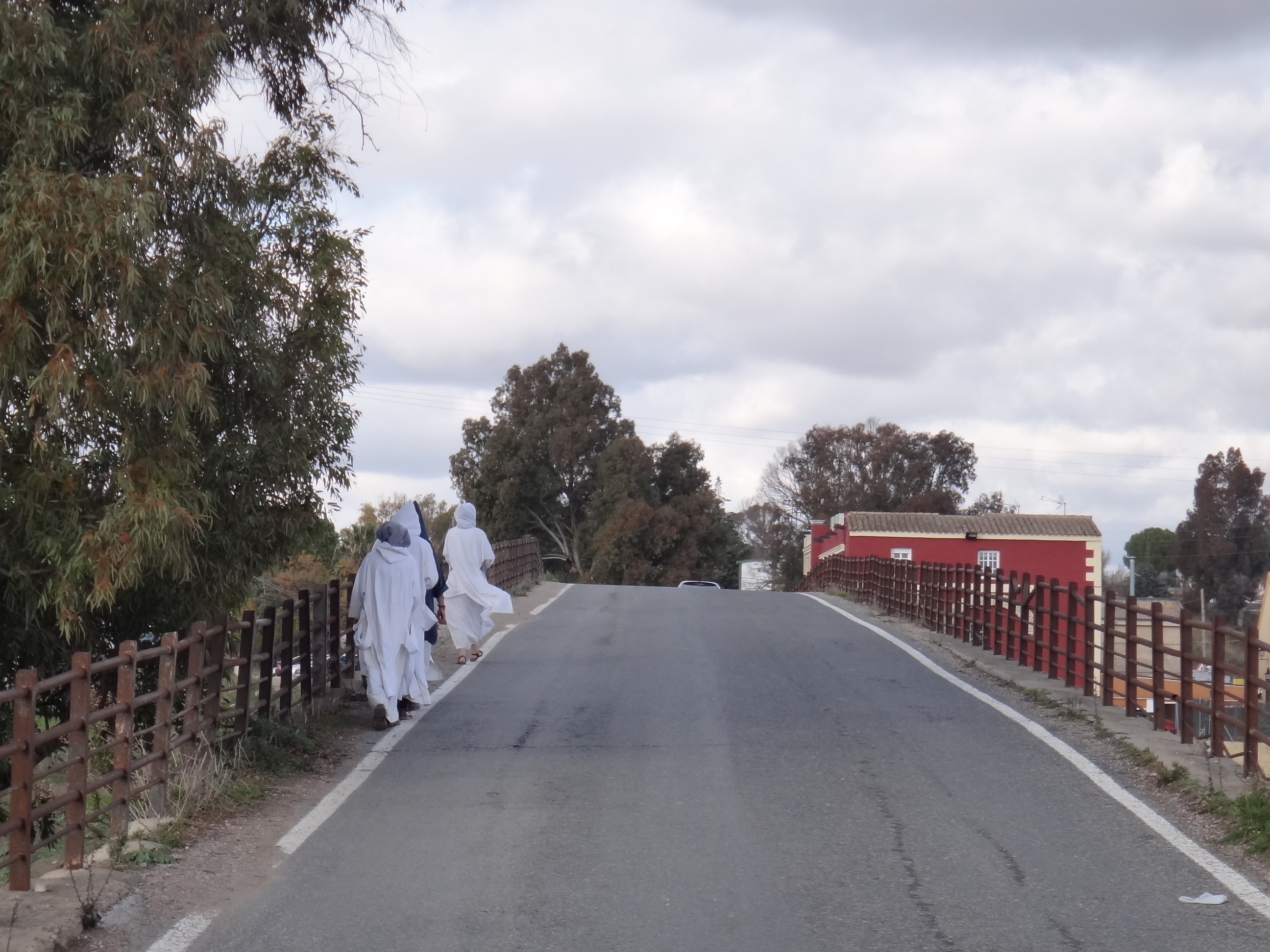 Bethlehemite nuns of the Jerez de la Frontera Charterhouse, a monastery in Jerez de la Frontera, Cádiz, Spain.